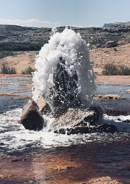 Rare example of a carbon-dioxide driven, cold-water, geyser system.